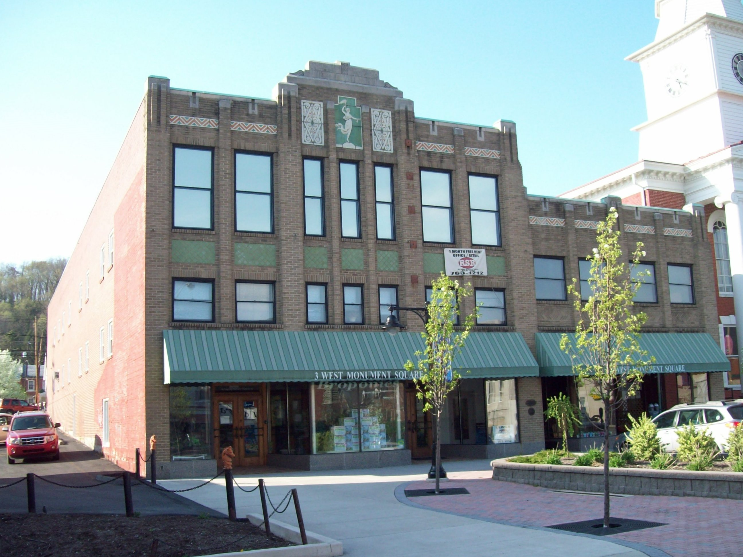 Montgomery Ward Building, Lewistown PA, April 2010